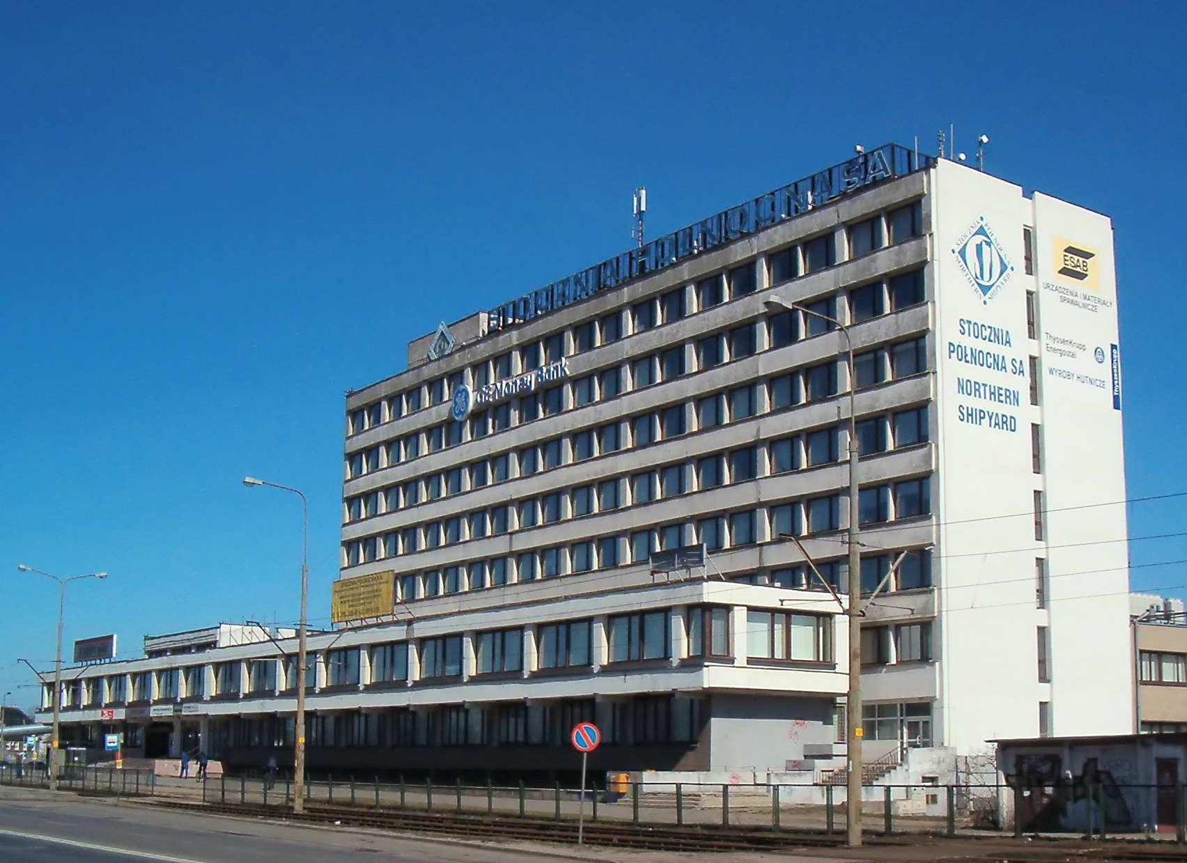 Offices of Northern Shipyard in Gdansk, Poland